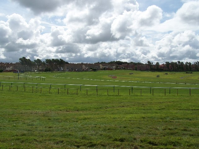 Ayr racecourse. turning into the final straight